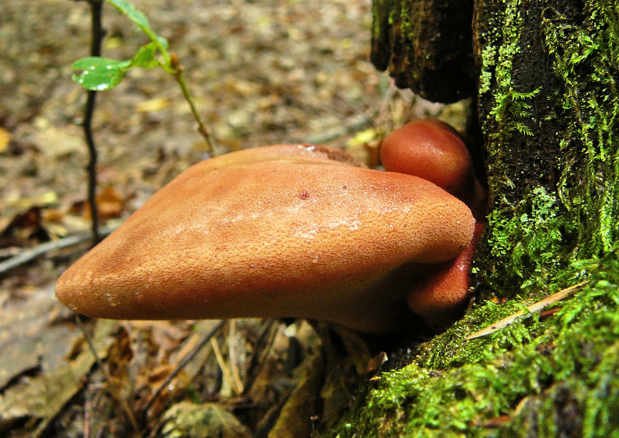 Fistulina hepatica on an oak stump near Tynec nad Sazavou/Teinitz an der Ssasau in the Czech Republic.